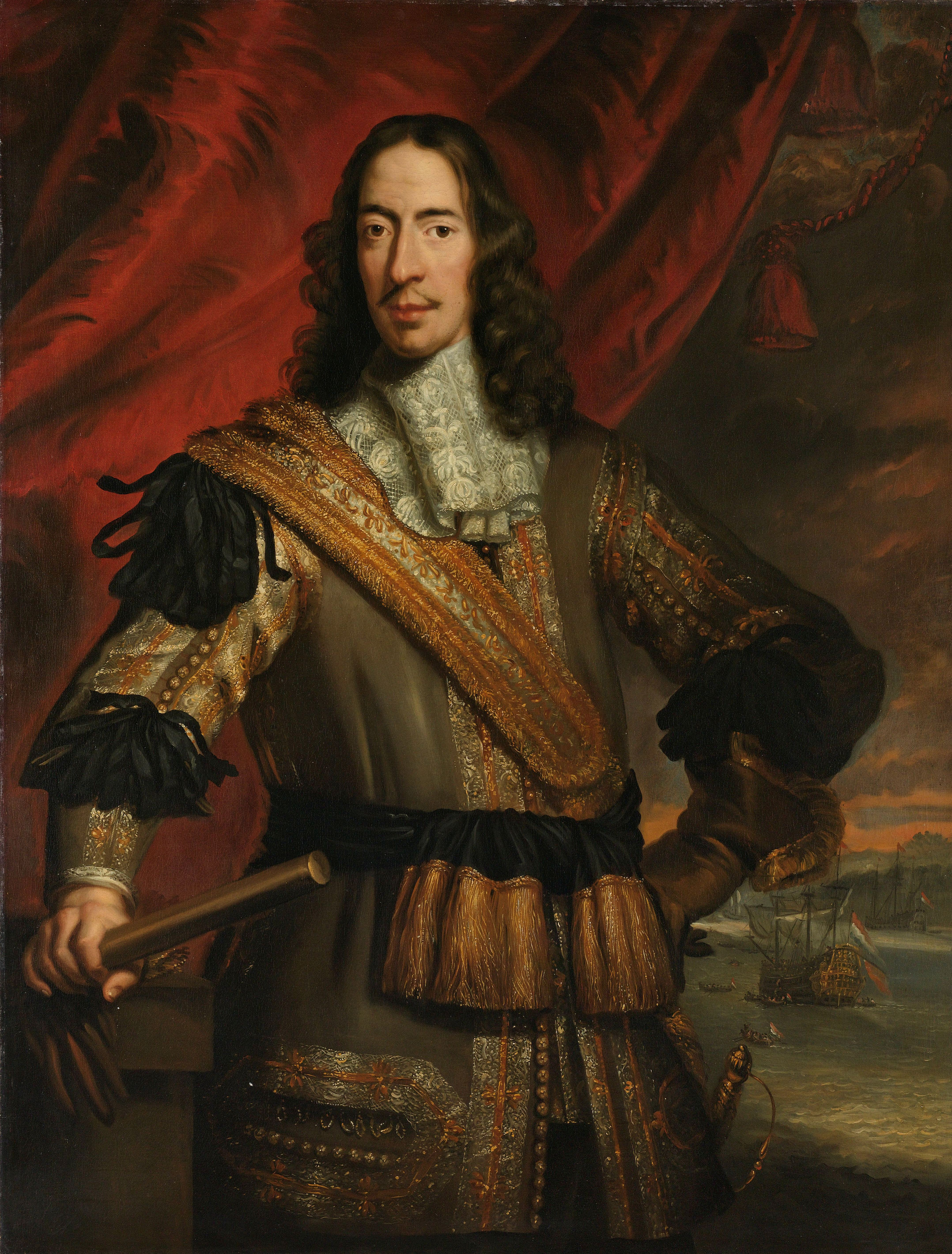 Portrait of Cornelis de Witt, mayor of Dordrecht and ruwaard of Putten. In the background the capture of the Royal Charles during the Raid on the Medway.